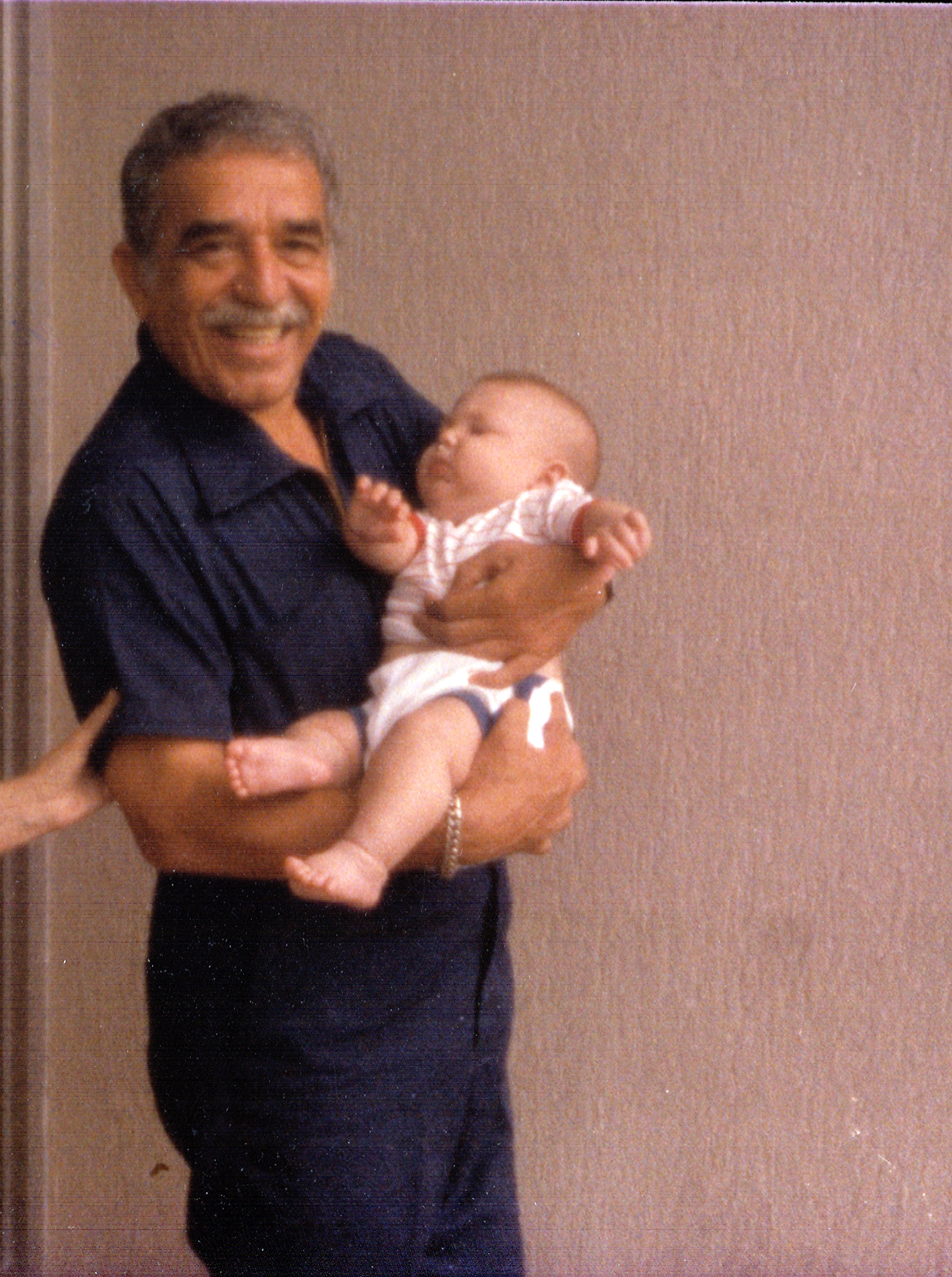 Writer García Márquez with the grandson of a friend